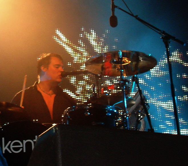 Pic taken by Agnieszka Szwarc.